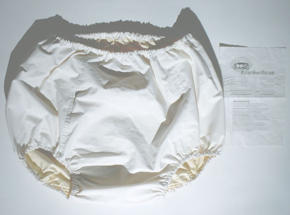 Rubber pants from Looki for incontinent children and adults